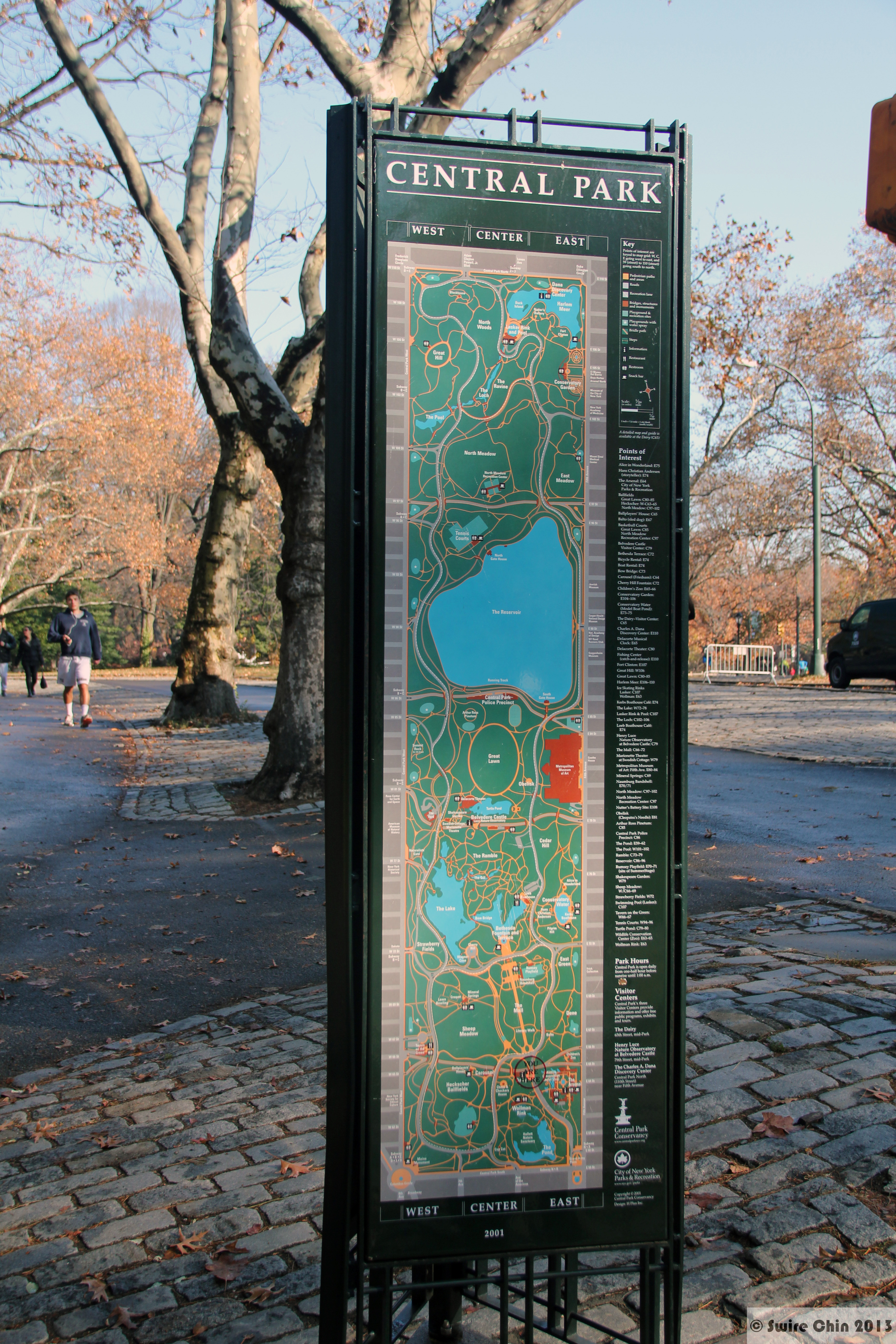 Central Park's map description. The red area is the location of the Metropolitan Museum of Art.